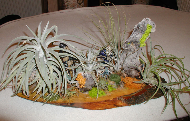 Photograph of a Tillandsia plant grouping. Taken by A R Pingstone on 20th January 2003 and placed into the public domain. Six plants on a section of varnished log. The orange and green material is dyed sphagnum moss. The log is 18 inches (45 cm) long. Afbeelding:Tillandsia..log.800pix.jpg